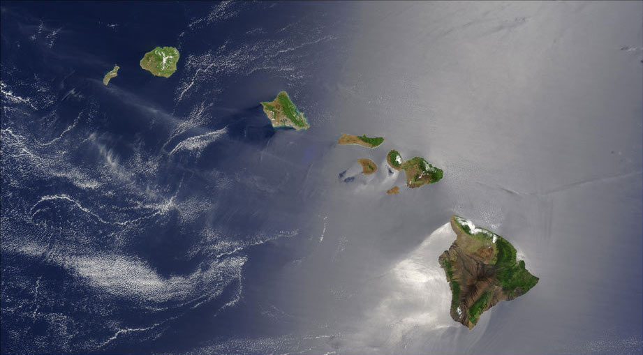 The raw satellite imagery shown in these images was obtain from NASA and/or the US Geological Survey. Post-processing and production by